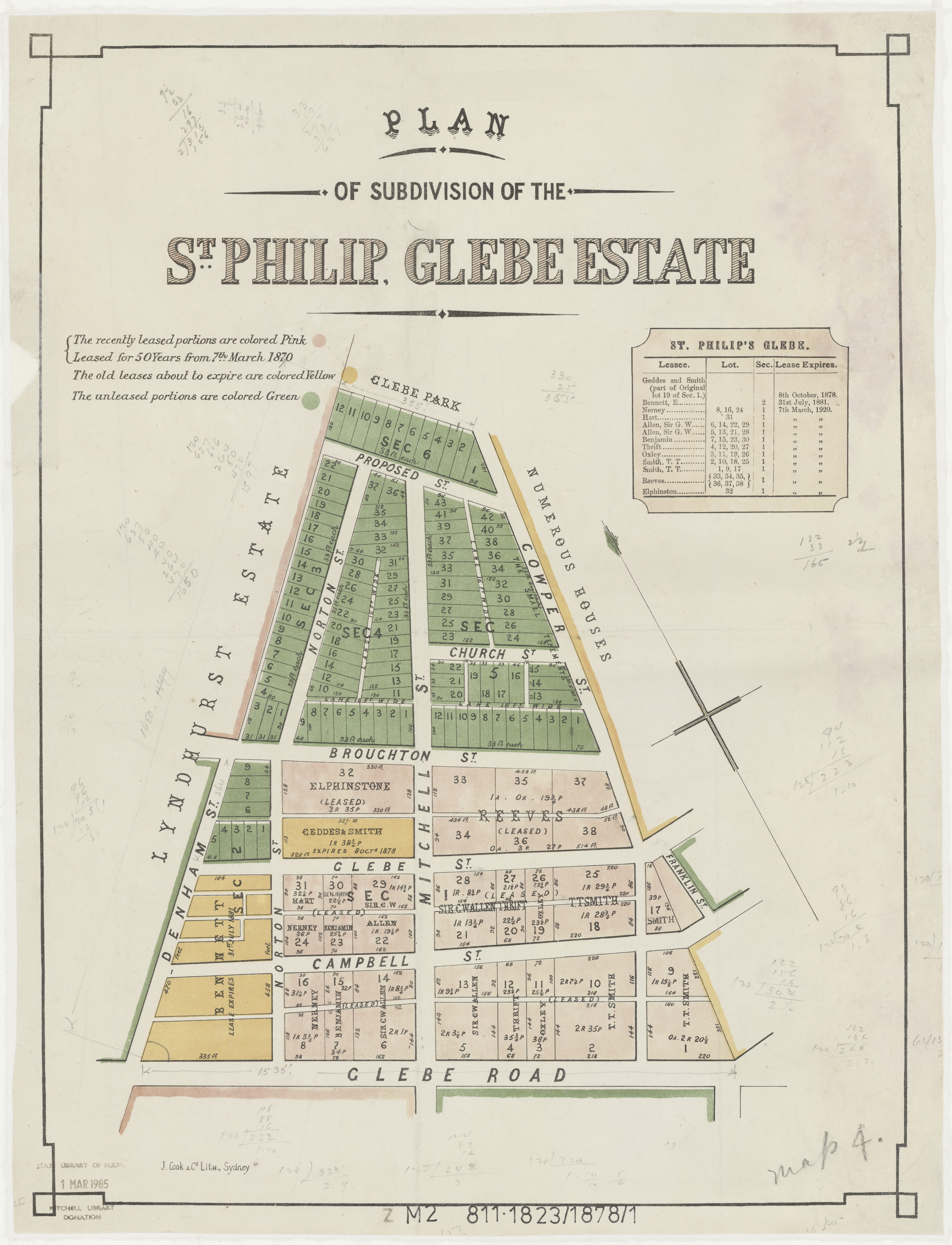 Plan of subdivision of the St. Philip, Glebe Estate, Sydney, c.1878, by J. Cook & Co., State Library of New South Wales Z/M2 811.1823/1878/1